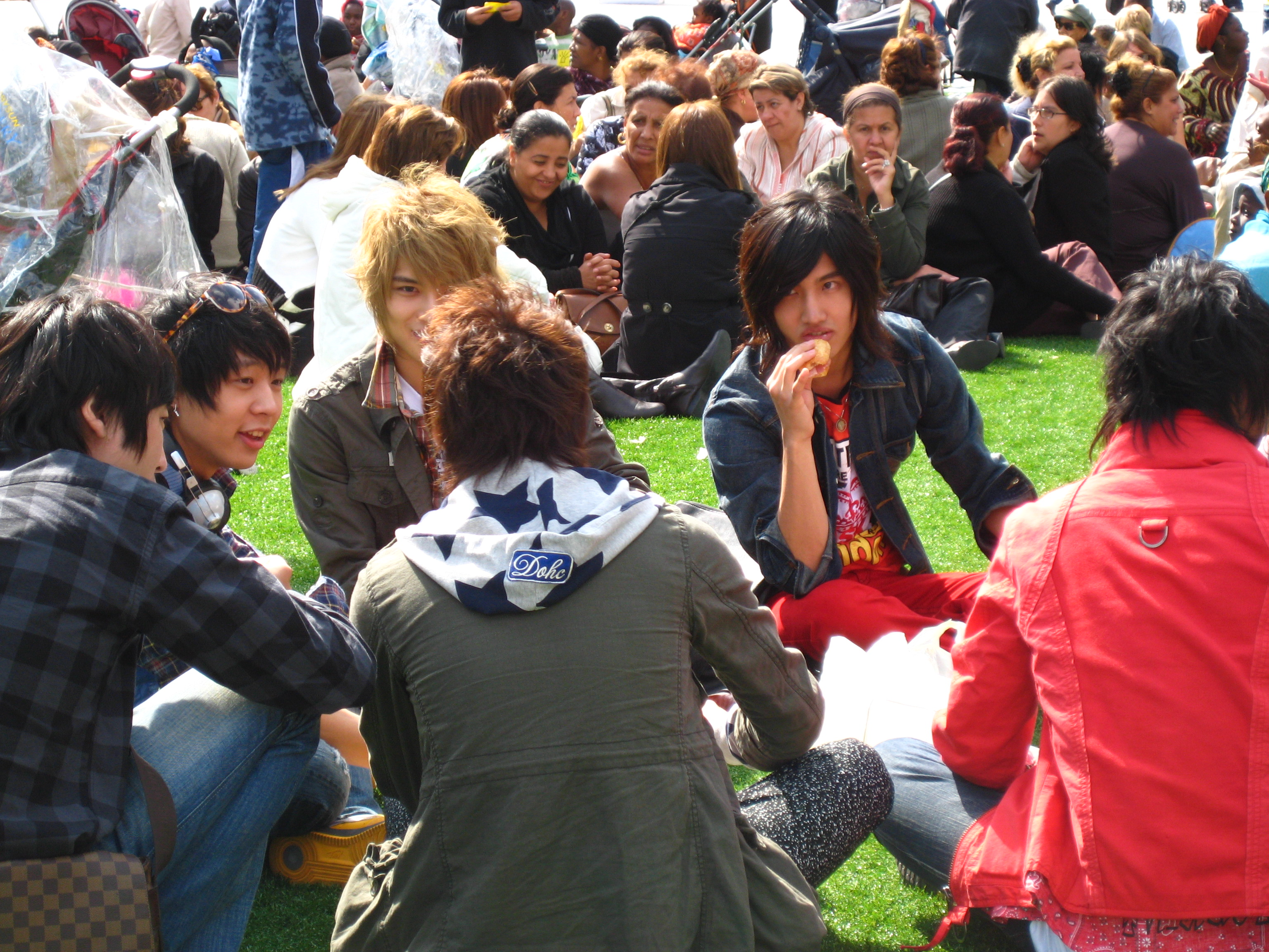 Wikipedia:en:TVXQ with staff taking a lunch break on the grass, near tourist area.